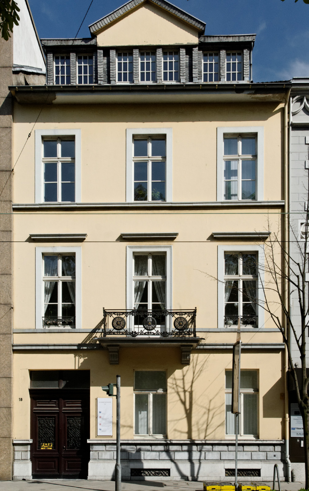 House Elisabethstraße 18 in Düsseldorf-Unterbilk, Germany